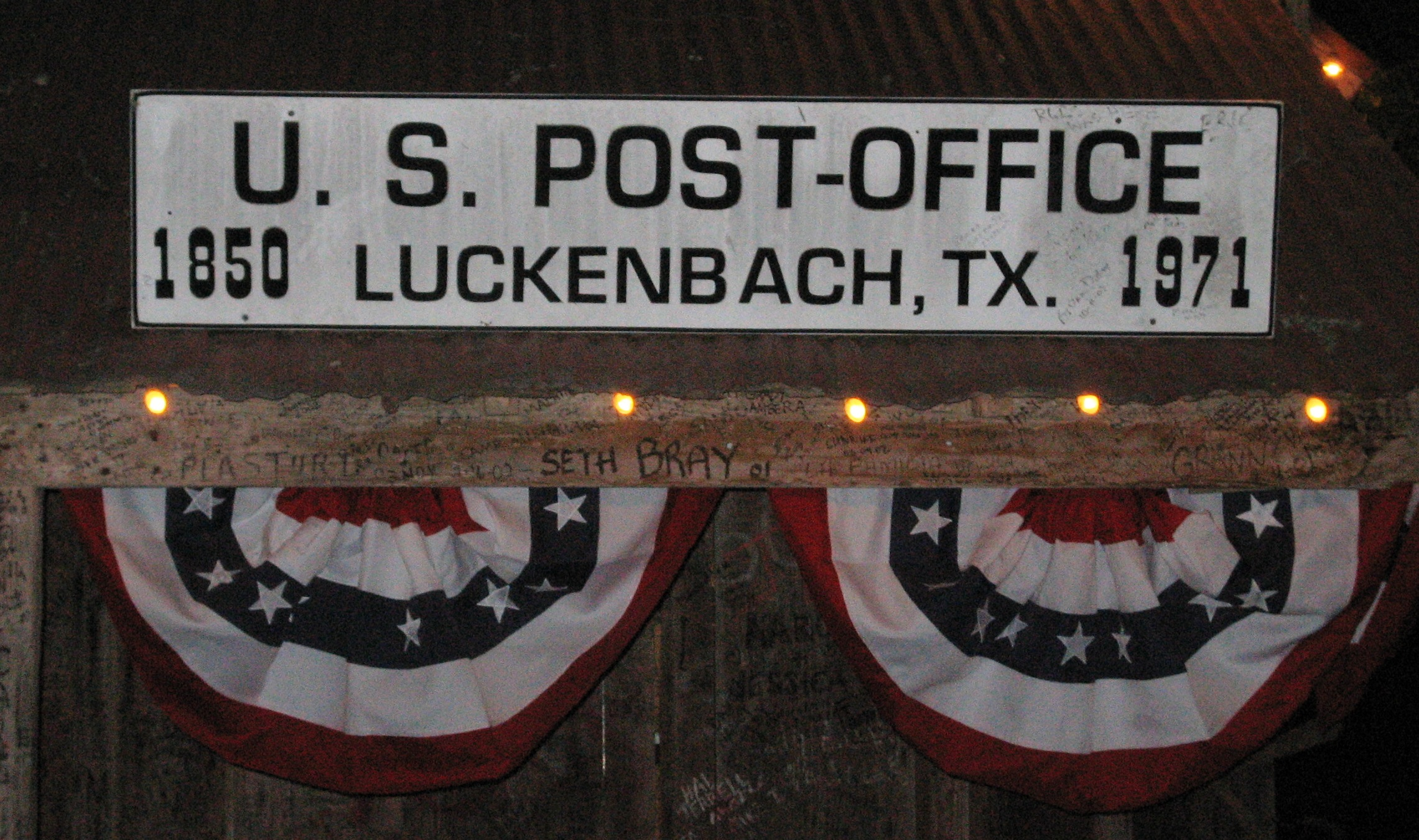 The Luckenbach, Texas Sign over the Post Office